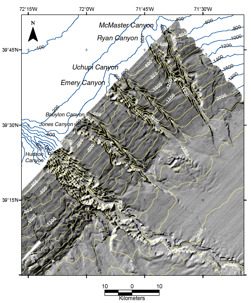 "Continental slope and upper continental rise northeast of Hudson Canyon, showing the four newly named submarine canyons along the continental slope: Emery, Uchupi, Ryan, and McMaster. Shaded-relief bathymetric imagery constructed by Tammie Middleton from multibeam bathymetric data collected on the NOAA ship Ronald H. Brown, 2002. Contour interval, 100 m; dark blue lines were derived from the NOAA Coastal Relief Model, and light yellow lines from multibeam bathymetric data collected in 2002."